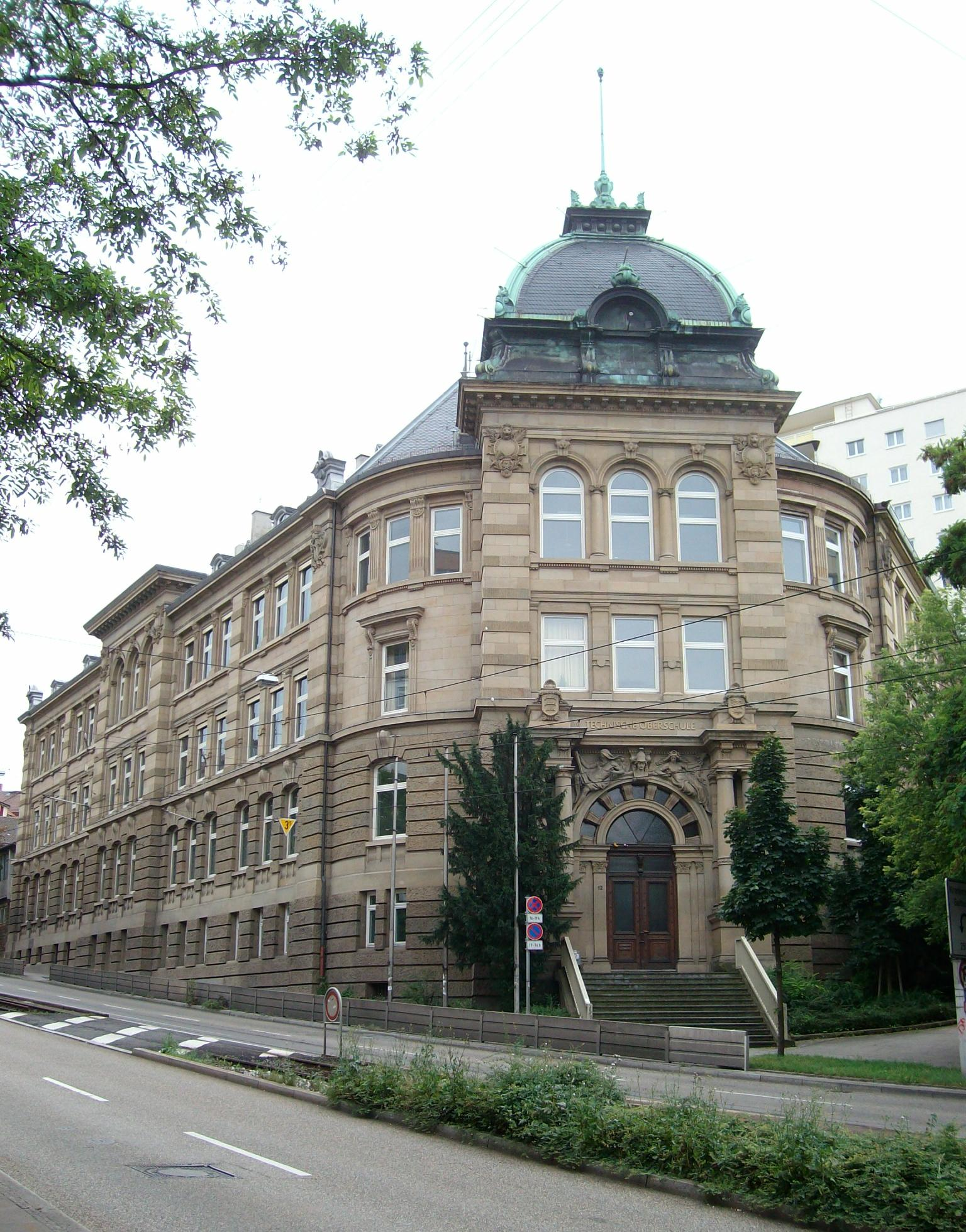 Technische Oberschule Stuttgart, a school in Stuttgart, Germany, see Technische Oberschule Stuttgart